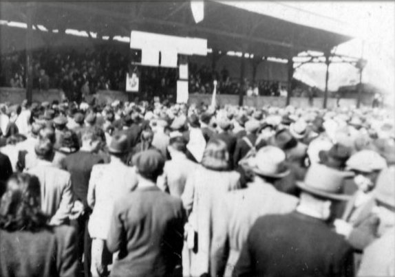 Buzanszky stadium always have complete offer in many cases. Here is a old public community program meeting in the 1930's years